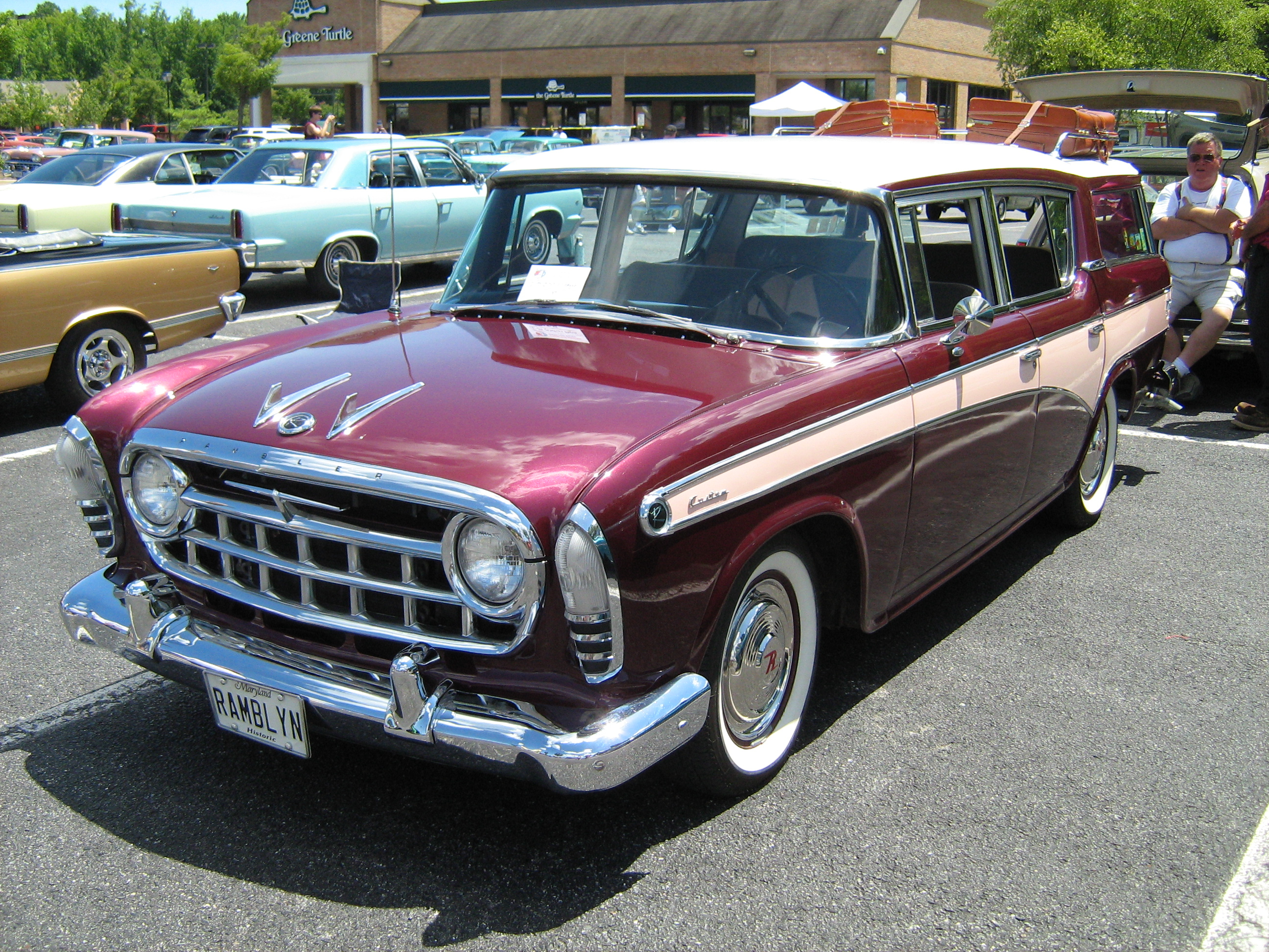 1957 Rambler built by American Motors Corporation (AMC). This is a "Cross-Country" station wagon body design in the Custom "trim" model. Factory correct tri-tone exterior paint and interior trim. Six cylinder with Hydramatic automatic transmission. Factory equipped with the "Weather Eye" heating and air conditioning system. Standard roof rack and correct AMC accessories. Picture was taken at the "2011 Potomac Ramblers Club" meeting in Maryland. Front left side view.